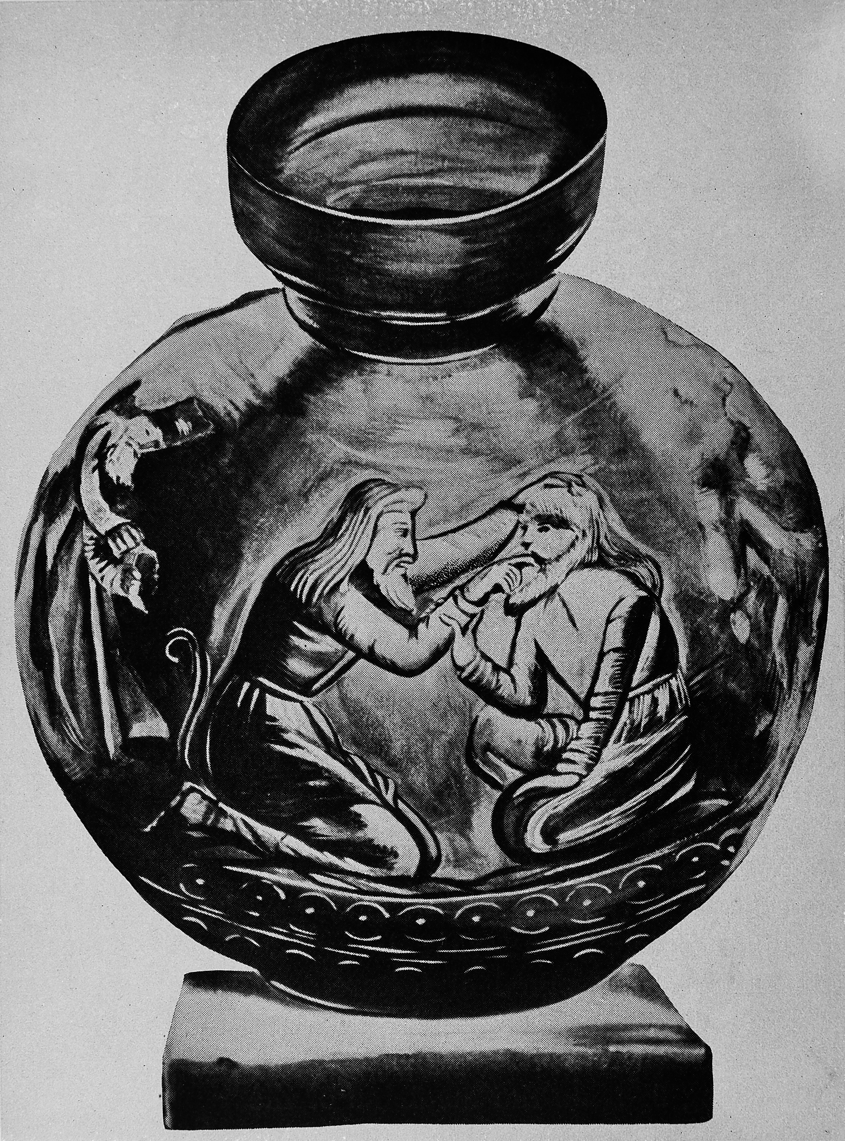 Extracting a tooth. Design on a Phoenician Vase. Wellcome Images Keywords: Dentistry